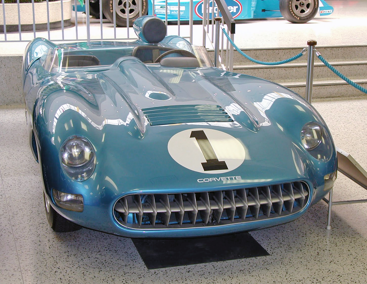 Chevrolet Corvette SS, a competition prototype which ended up being relegated to working as a track hack after American car manufacturers were banned from directly sponsoring auto racing. At the Indy Car Museum in 2002.